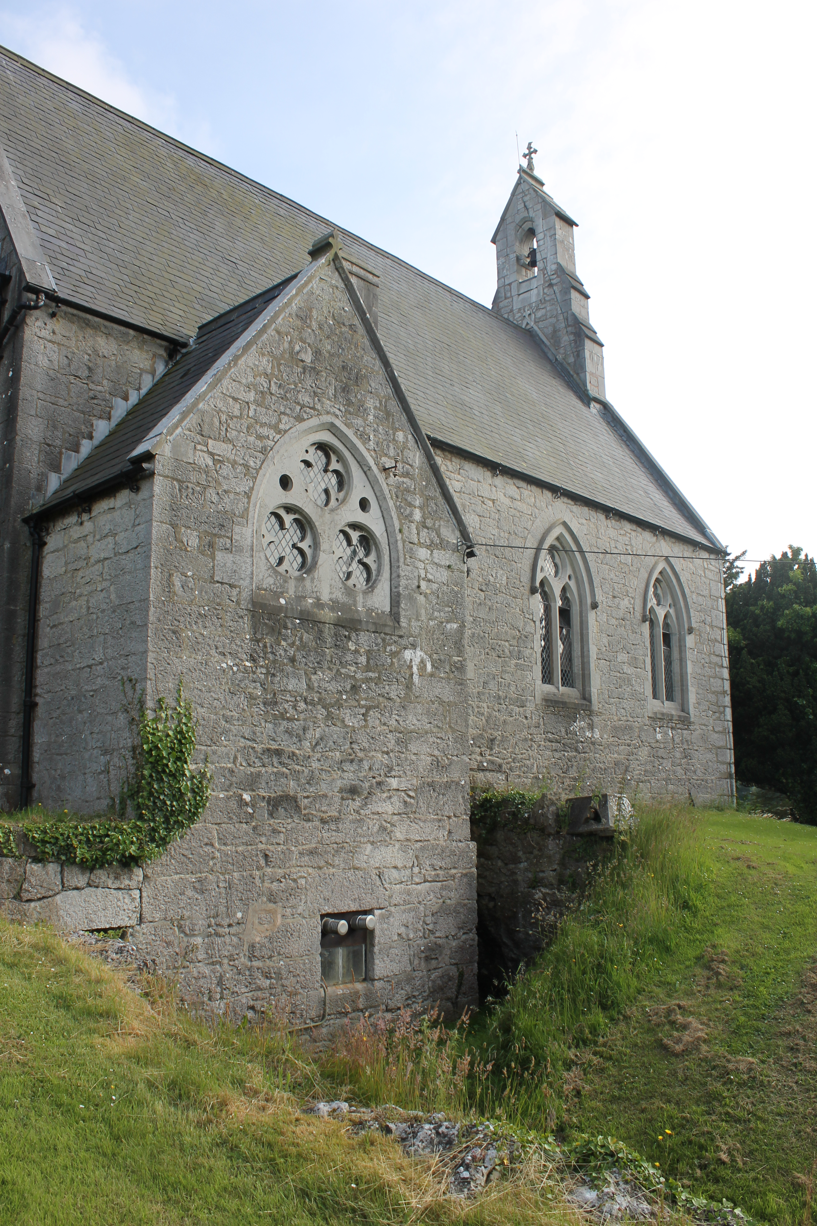 St Mary's Church, Cefnmeiriadog, Denbighshire. Built 1863. Grade II Listed.